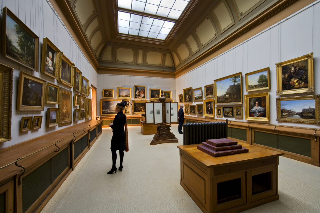 Paintings Gallery I of Teylers Museum (1838), Haarlem, The Netherlands.